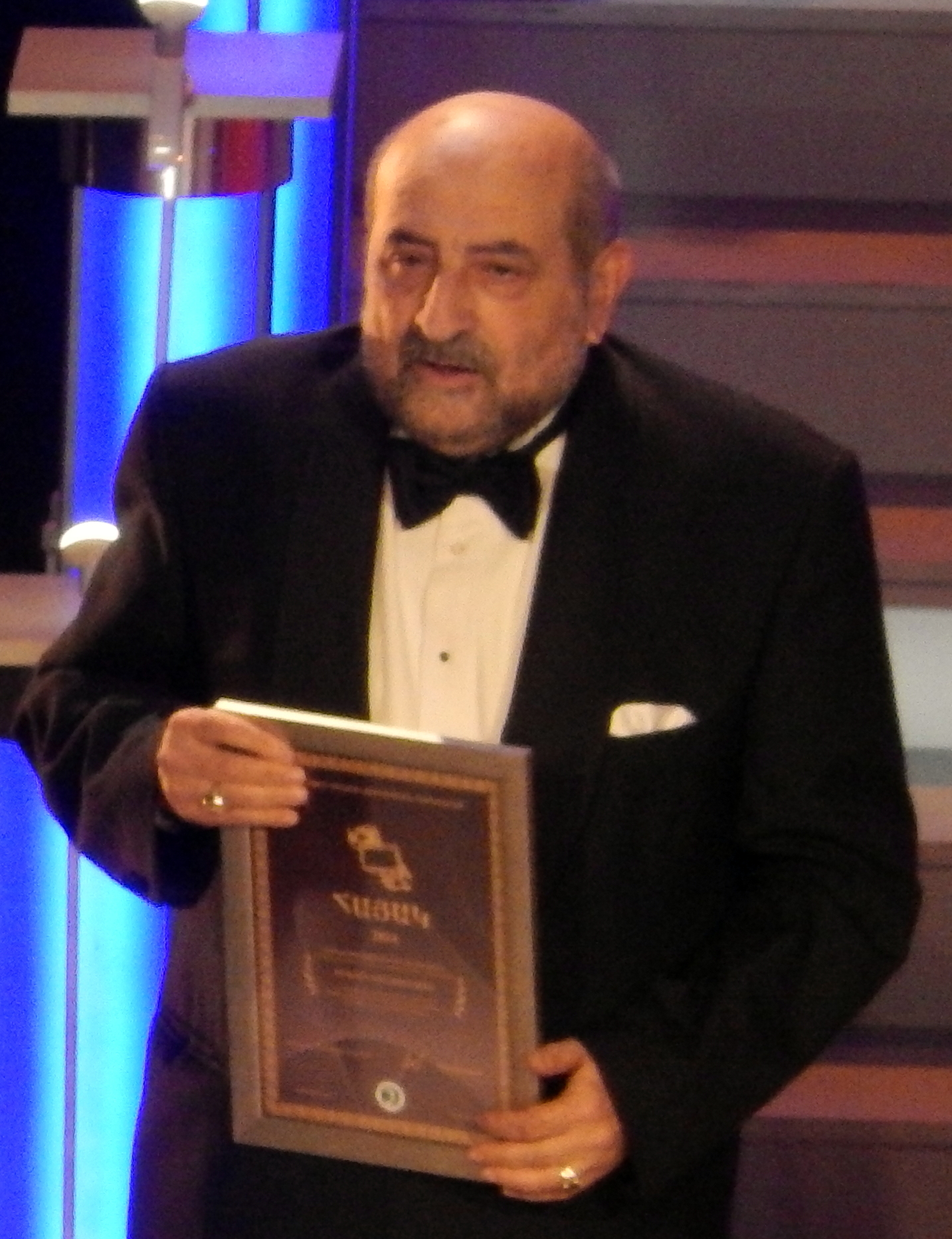 Rouben Gevorgyants